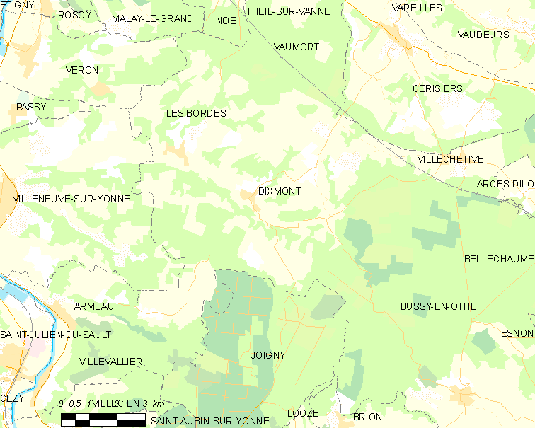 Map of French municipality Dixmont